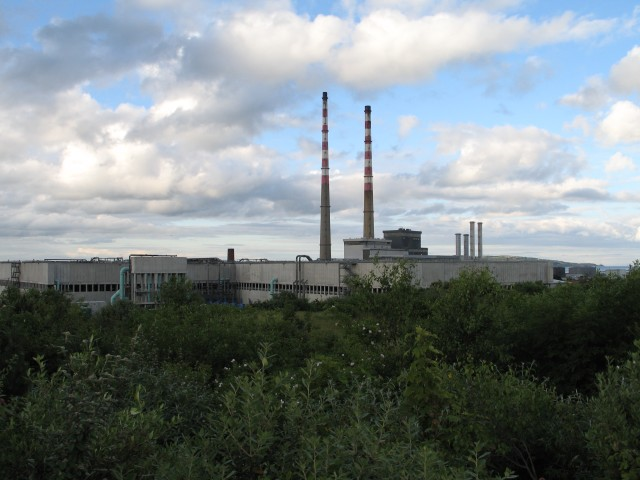 Ringsend Power Station from the Irishtown Nature Park near to Sandymount and Donnybrook, Dublin, Ireland. Geographical data: Subject location Irish: O2009033226 [Accurate to ~1m] WGS84: 53:20.1423N 6:11.9022W [53.33571,-6.19837] View direction: Northeast (about 45 degrees).